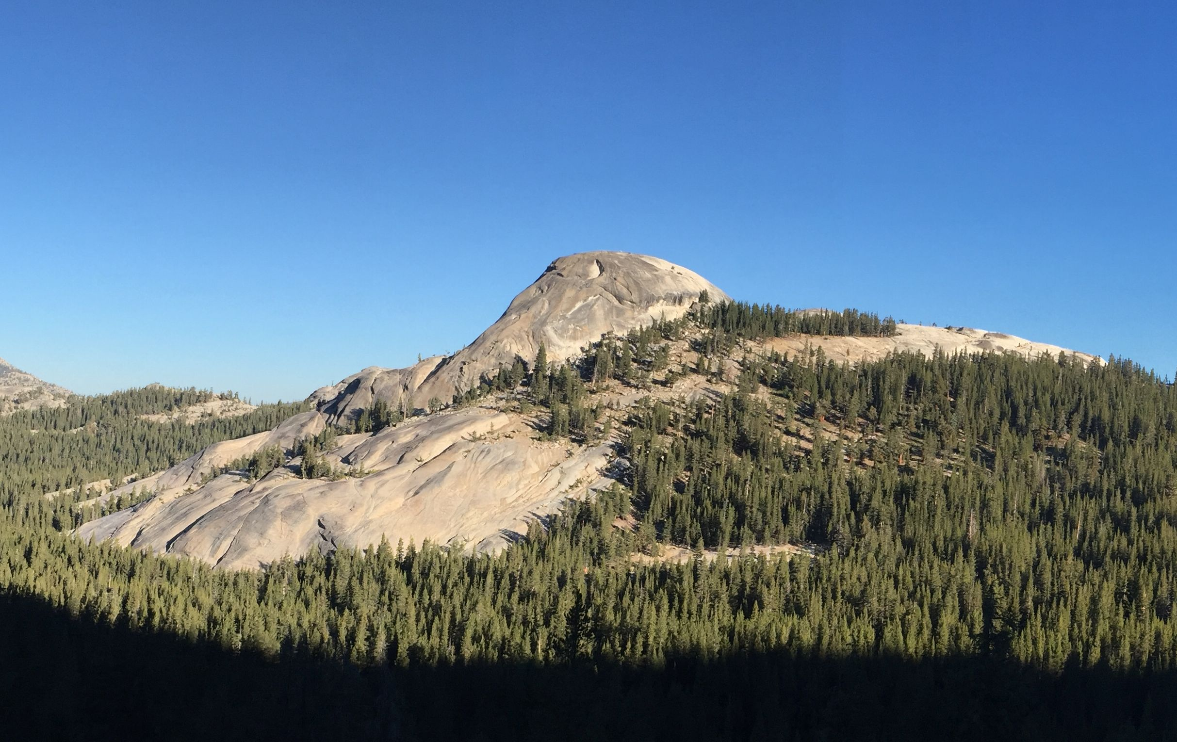 Tuolumne Meadows section of Yosemite National Park. Daff Dome from Fairview Dome